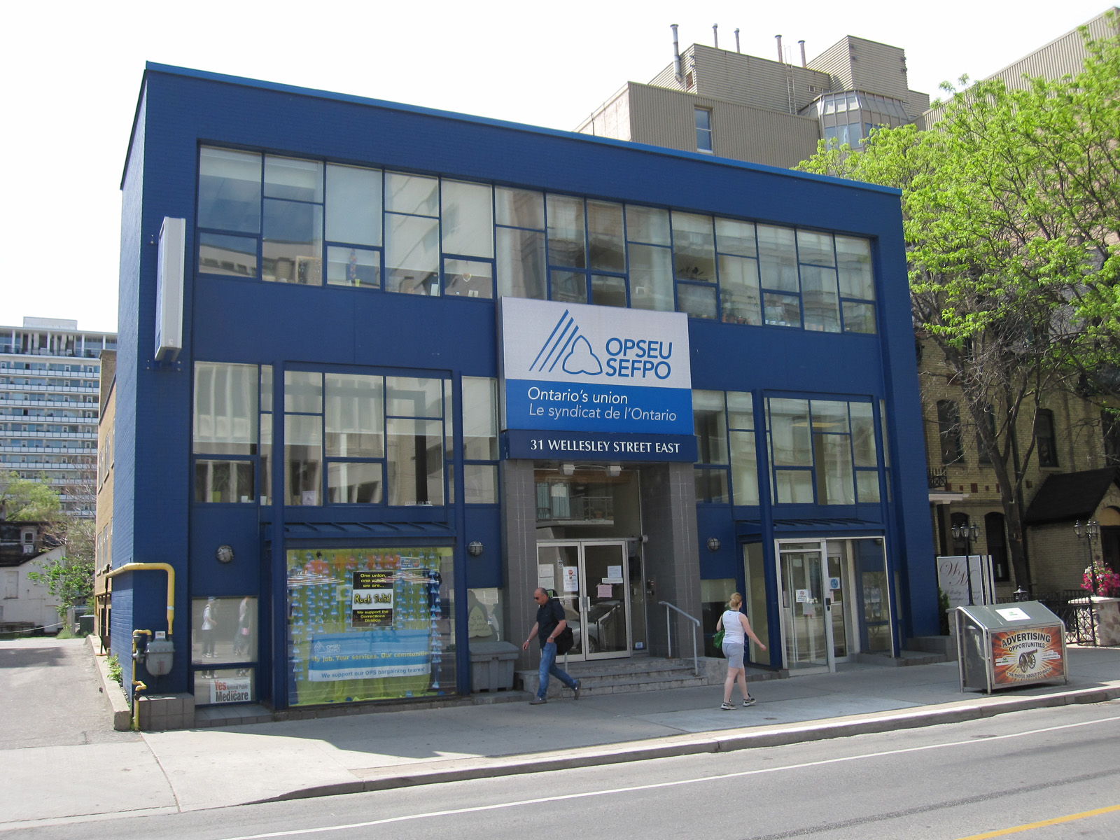 A labor union hall located in the Church-Wellesley area of Toronto. The presence of labor unions is much more visible in Canada than in the US, where between vilification by business interests and a string of "right-to-work laws in many states, union membership has plummeted over the past few decades. And since Canadian labor unions do not have to fight for basic survival or political points the way their US counterparts often have to do, their functions are more likely to be visible throughout the greater society, often in the form of volunteer work and other charitable contributions.